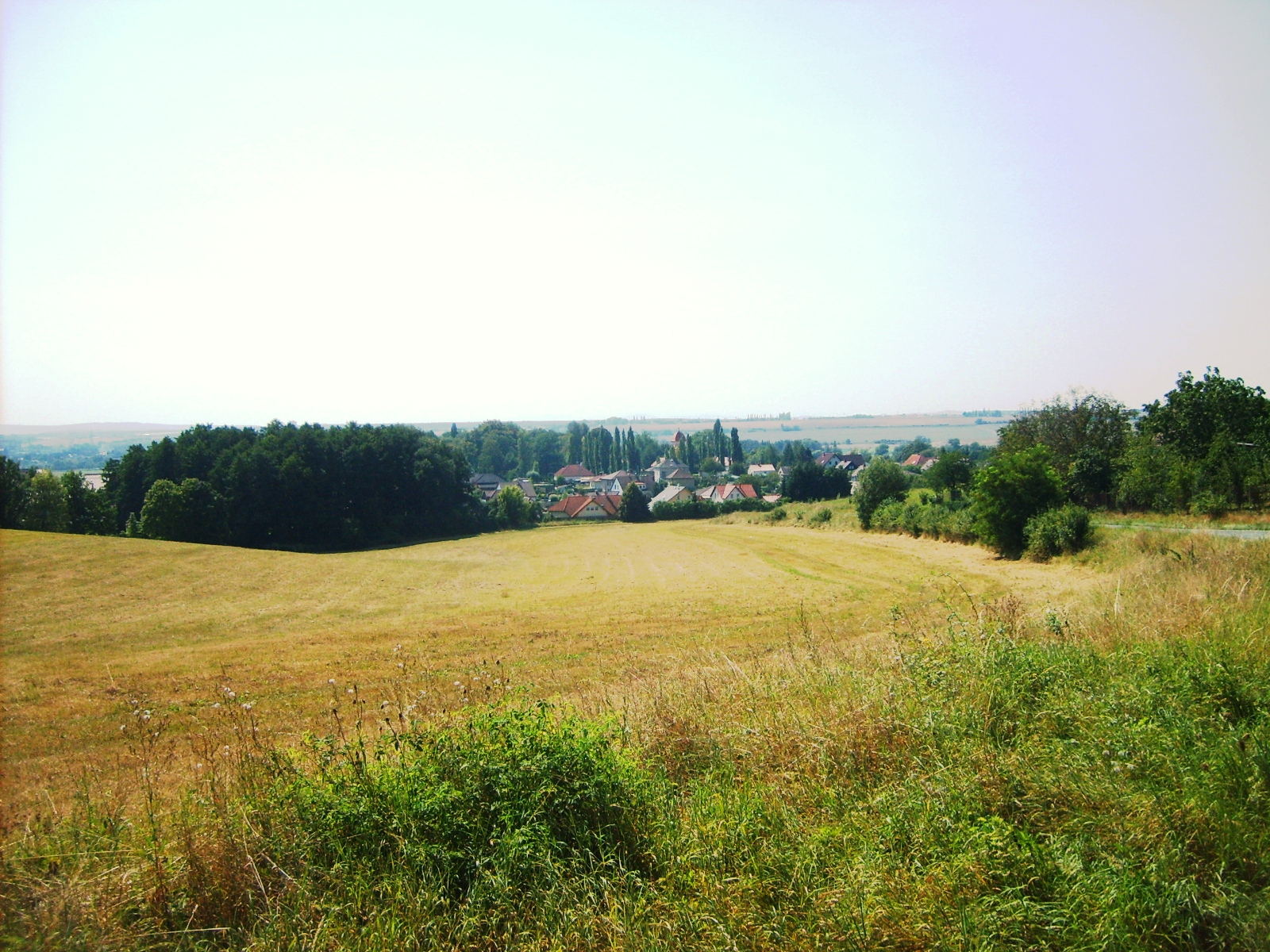 Malesice from Chotíkov way.